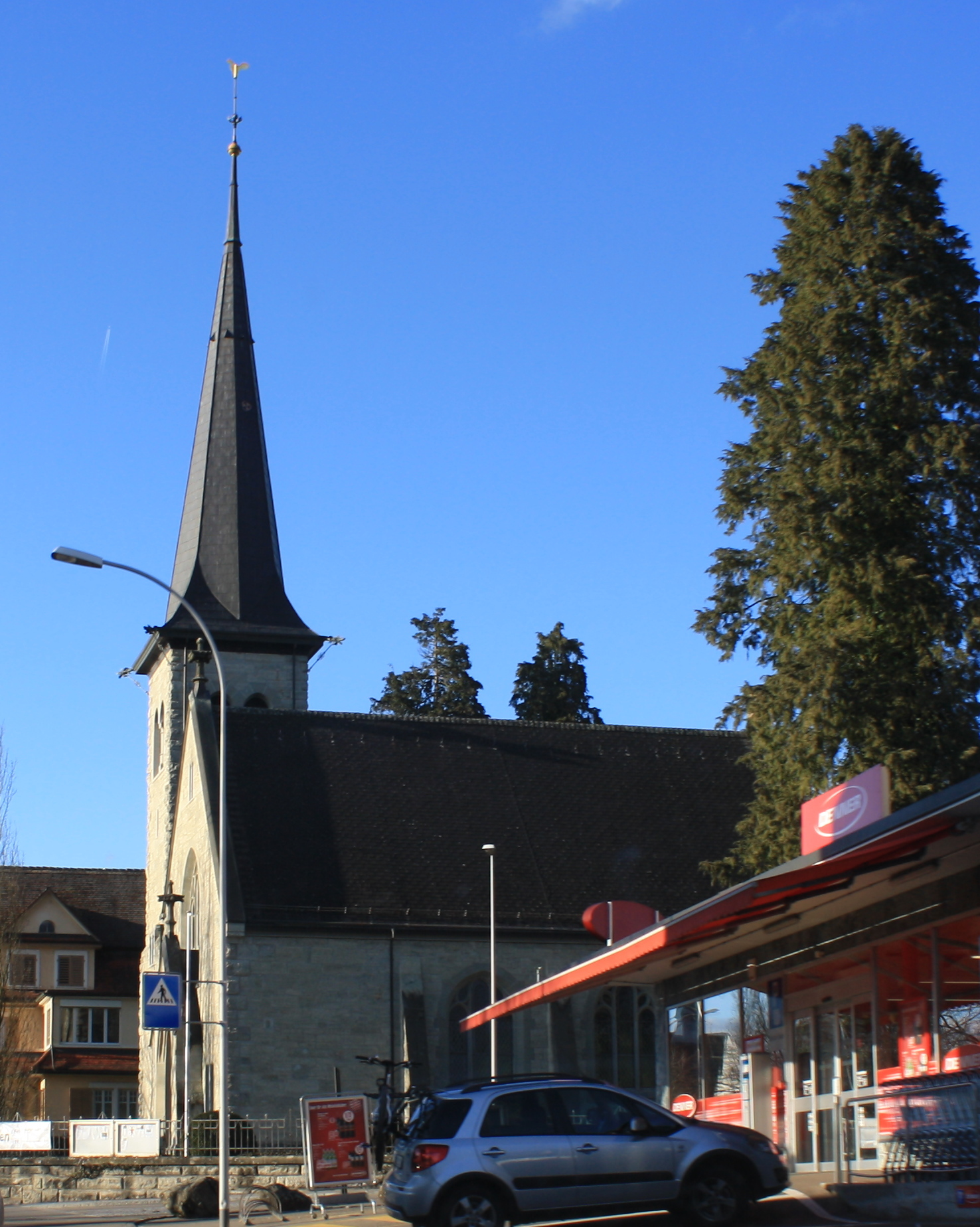 Reformed church of Bremgarten